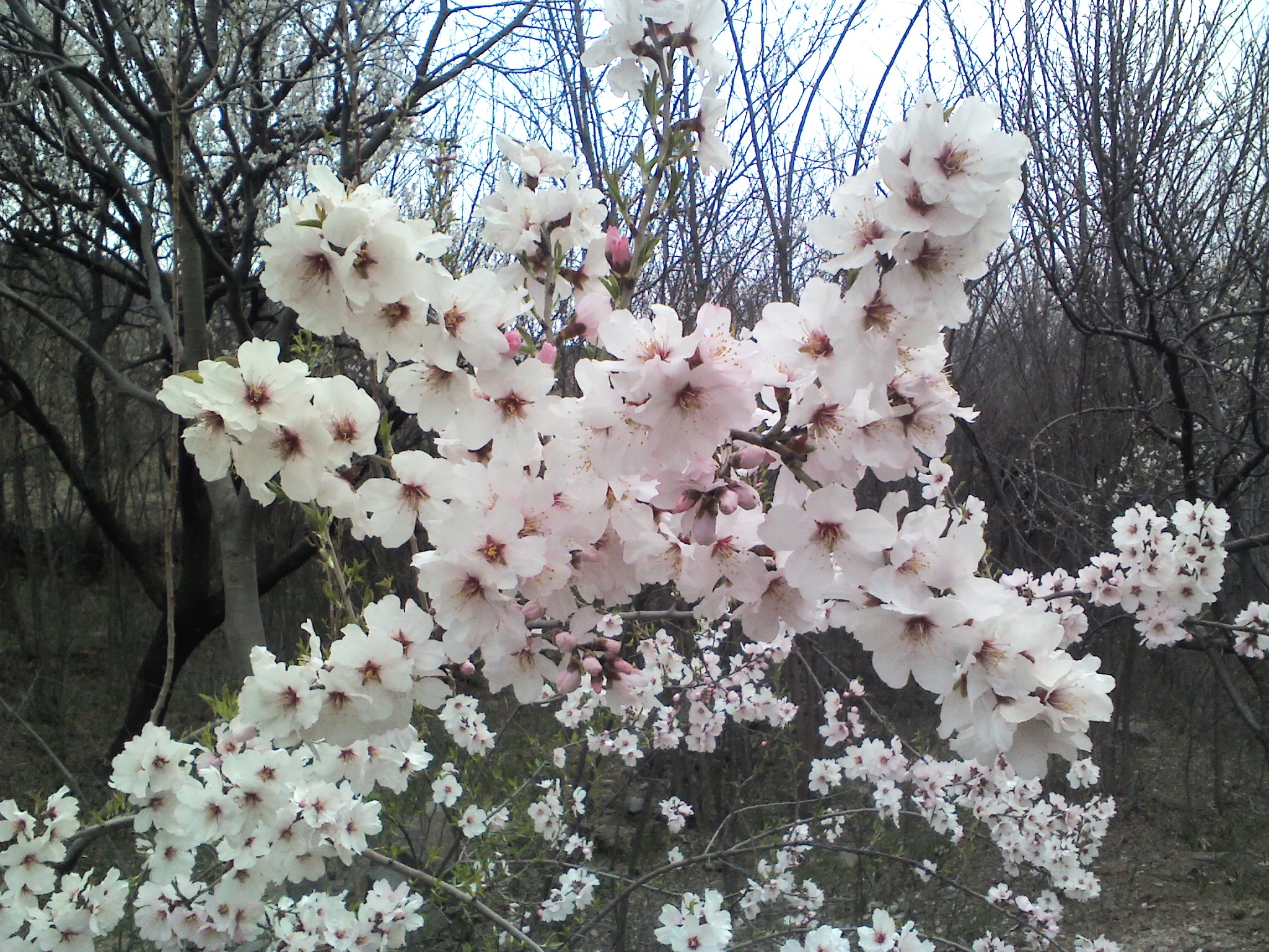 Apricot flowers taken from an orchard in village Benhama of Kashmir.